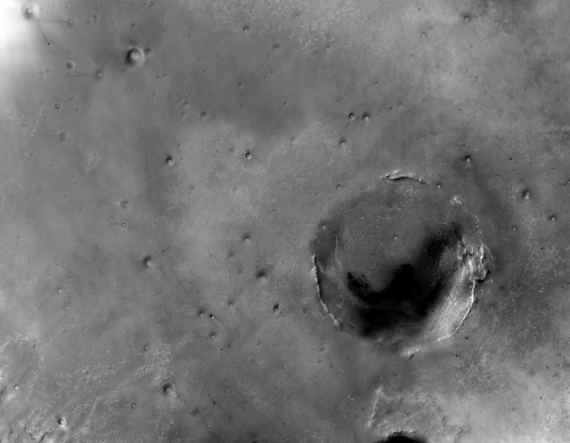 This image of the Endeavour crater was taken from the Mars Reconnaissance Orbiter on March 7, 2009. Endeavour is an impact crater located in the Meridiani Planum which is near the equator of Mars. Endeavour Crater is 22 kilometers (14 miles) in diameter and starting in August of 2008 was the destination for the Mars Exploration Rover Opportunity.